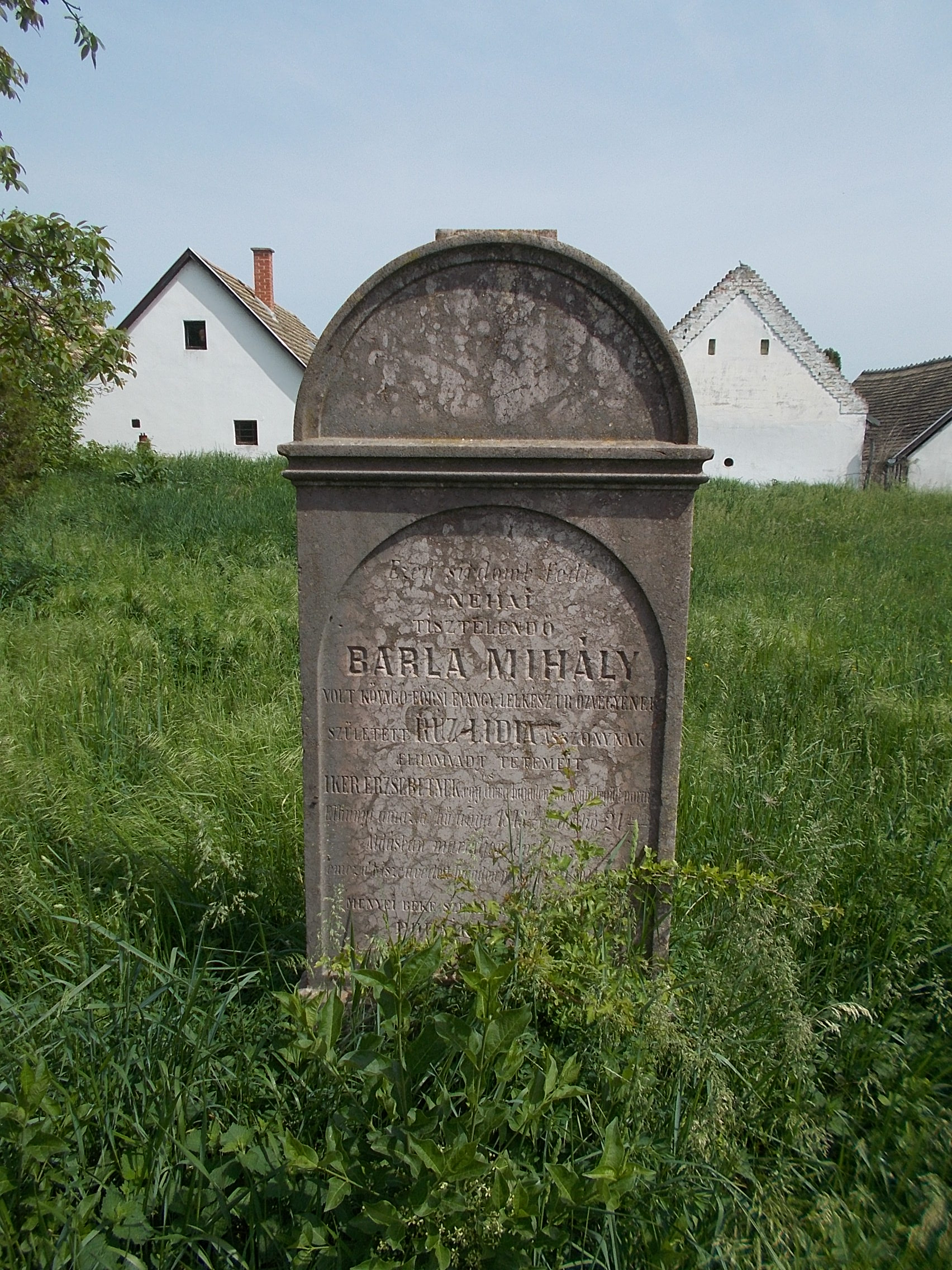 Lutheran Cemetery, tomb of Mrs Mihály Barla. - Temető street, Szérűskert neighborhood, Paks, Tolna County, Hungary.